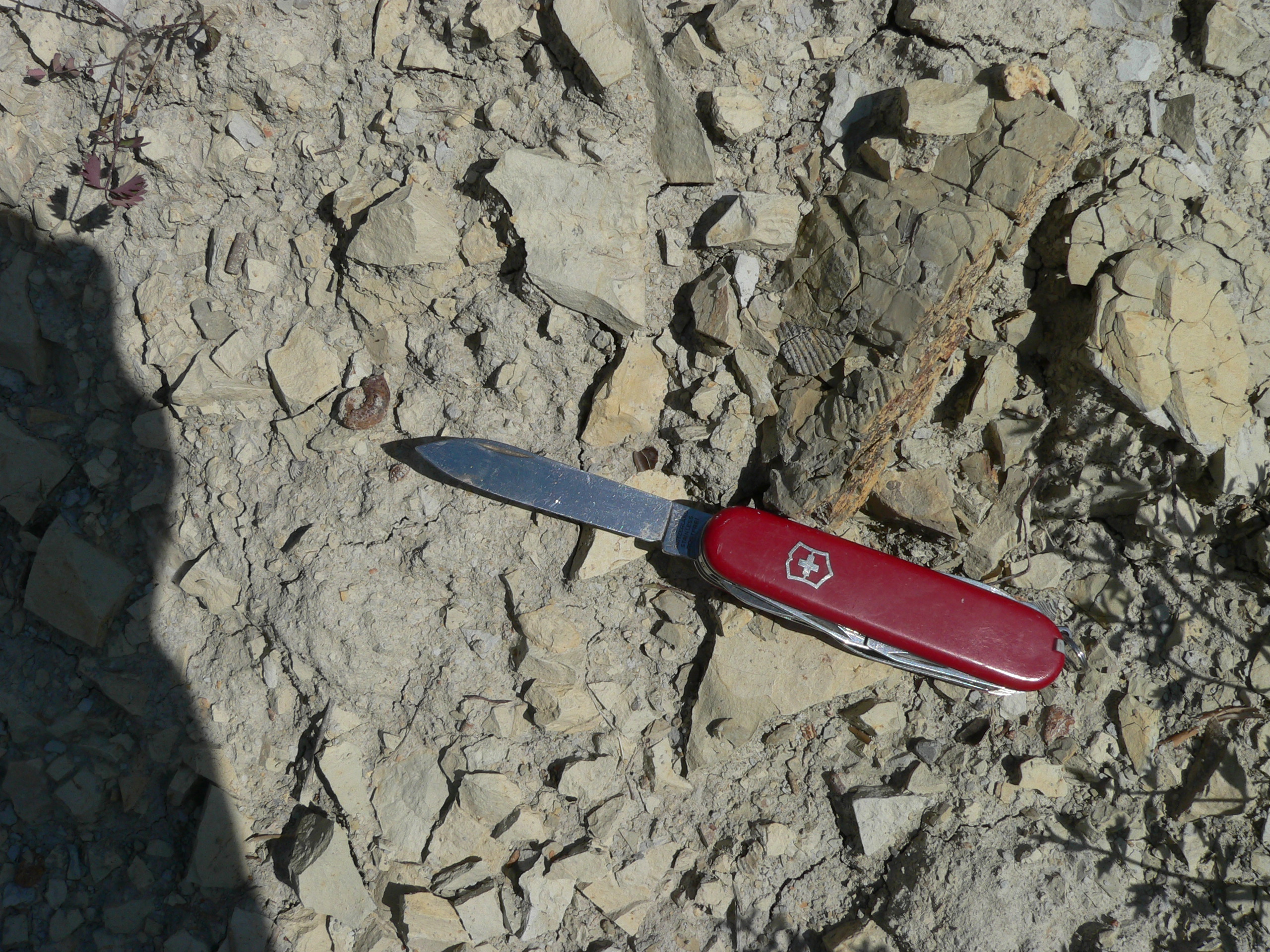 Blue marl, near Col St. Jean, rich in fossils